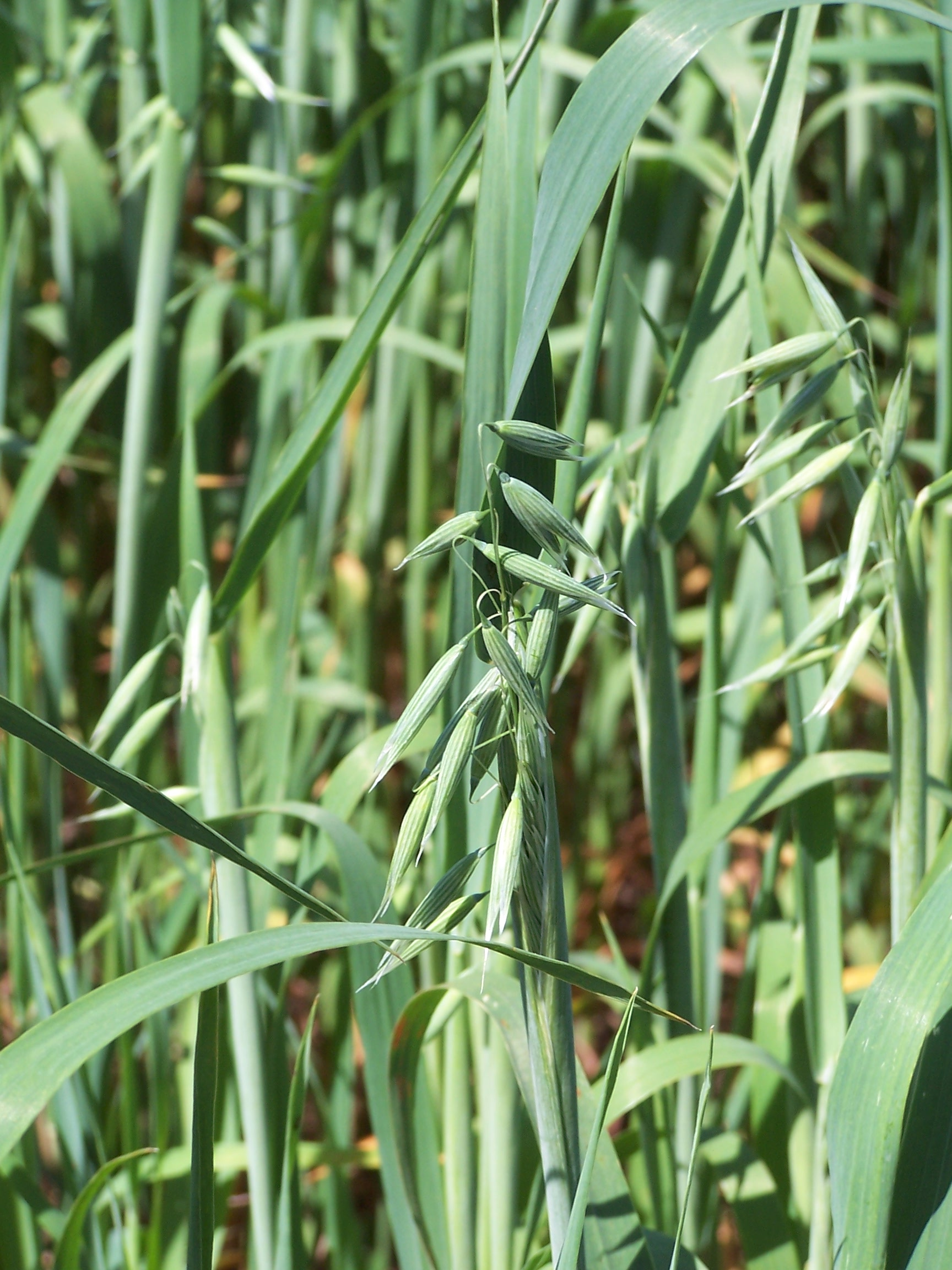 Avena sativa L (oat)